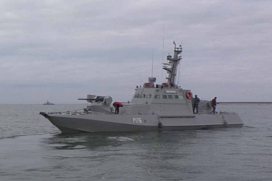 Navy in Kozac'ka Volia military training, Ukraine, 2018